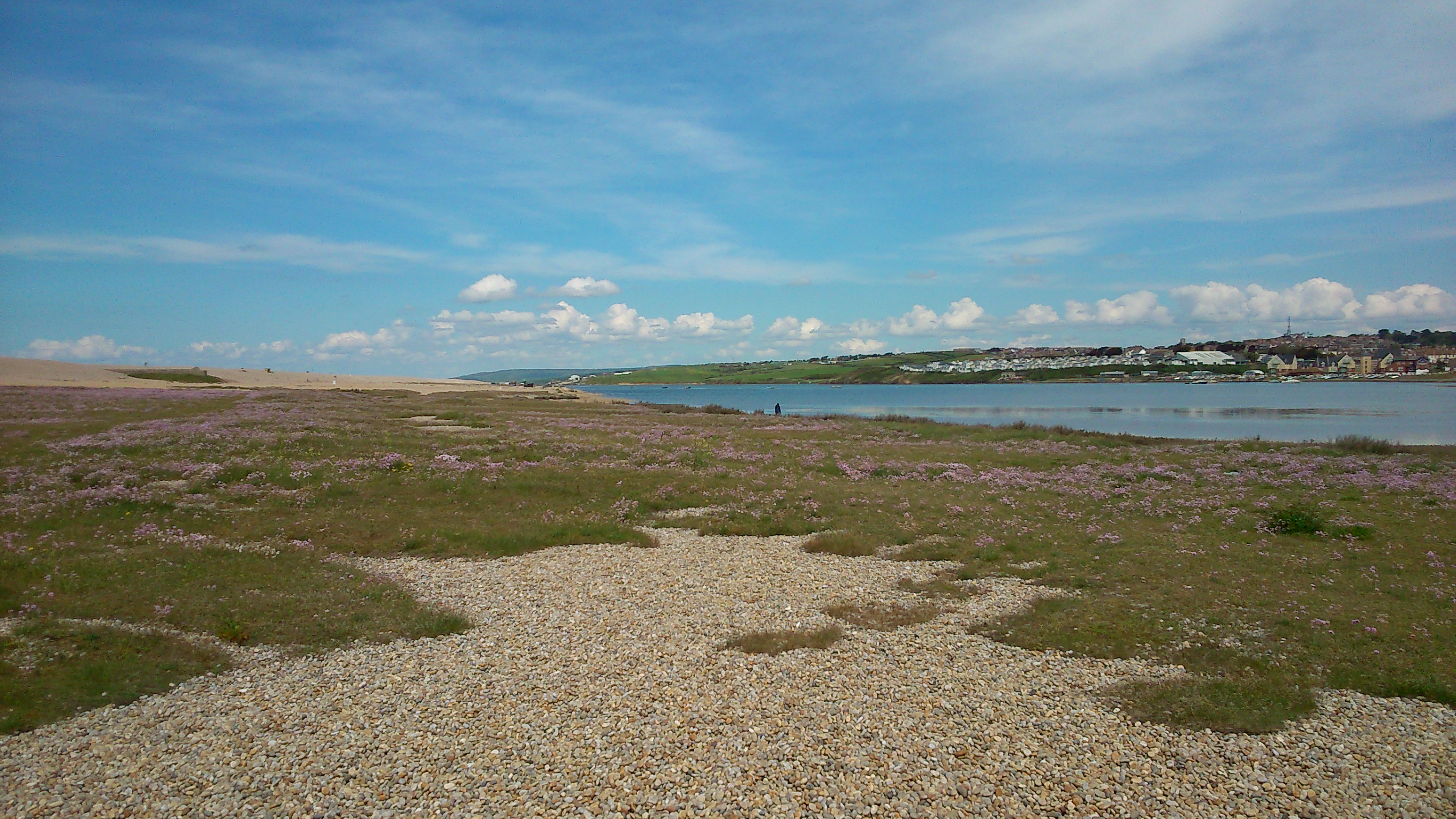 Chesil Beach and the Fleet Lagoon, Dorset